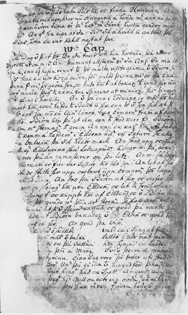 Áns saga bogsveigis manuscript (XIV Century) ÍB 43 folx folio